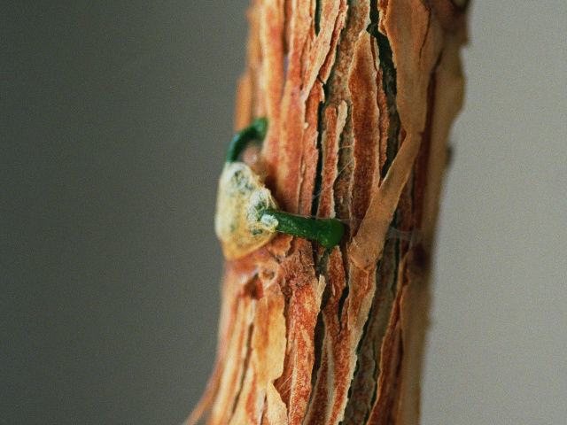 Seed of European mistletoe (Viscum album) freshly attaching a limb (small coffee plant).